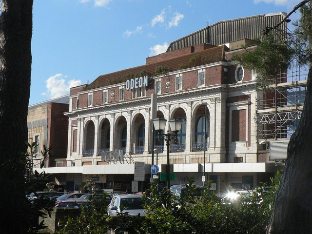 Odeon cinema, Westover Road, Bournemouth, England.